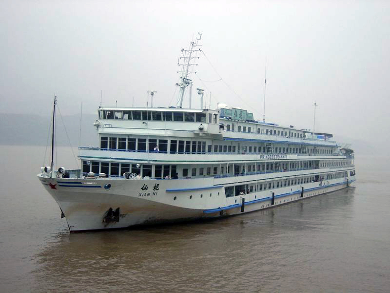 River cruise ship Xian Ni (Princess Jeannie), built in Germany in 1993, on the Yangtze River in China